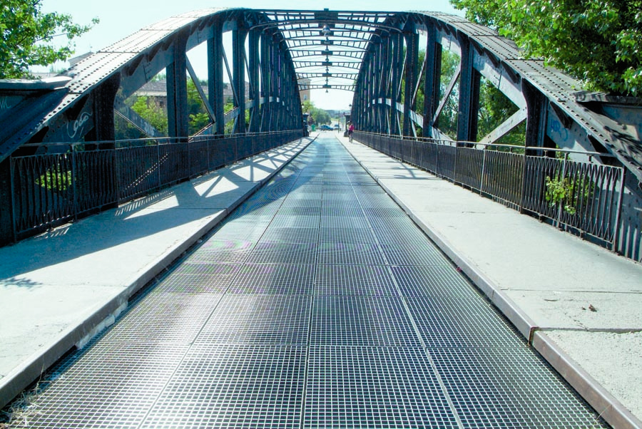 Bridge with grid that prevents the accumulation of liquids in the center, facilitates cleaning, and gives lightness to the structure.